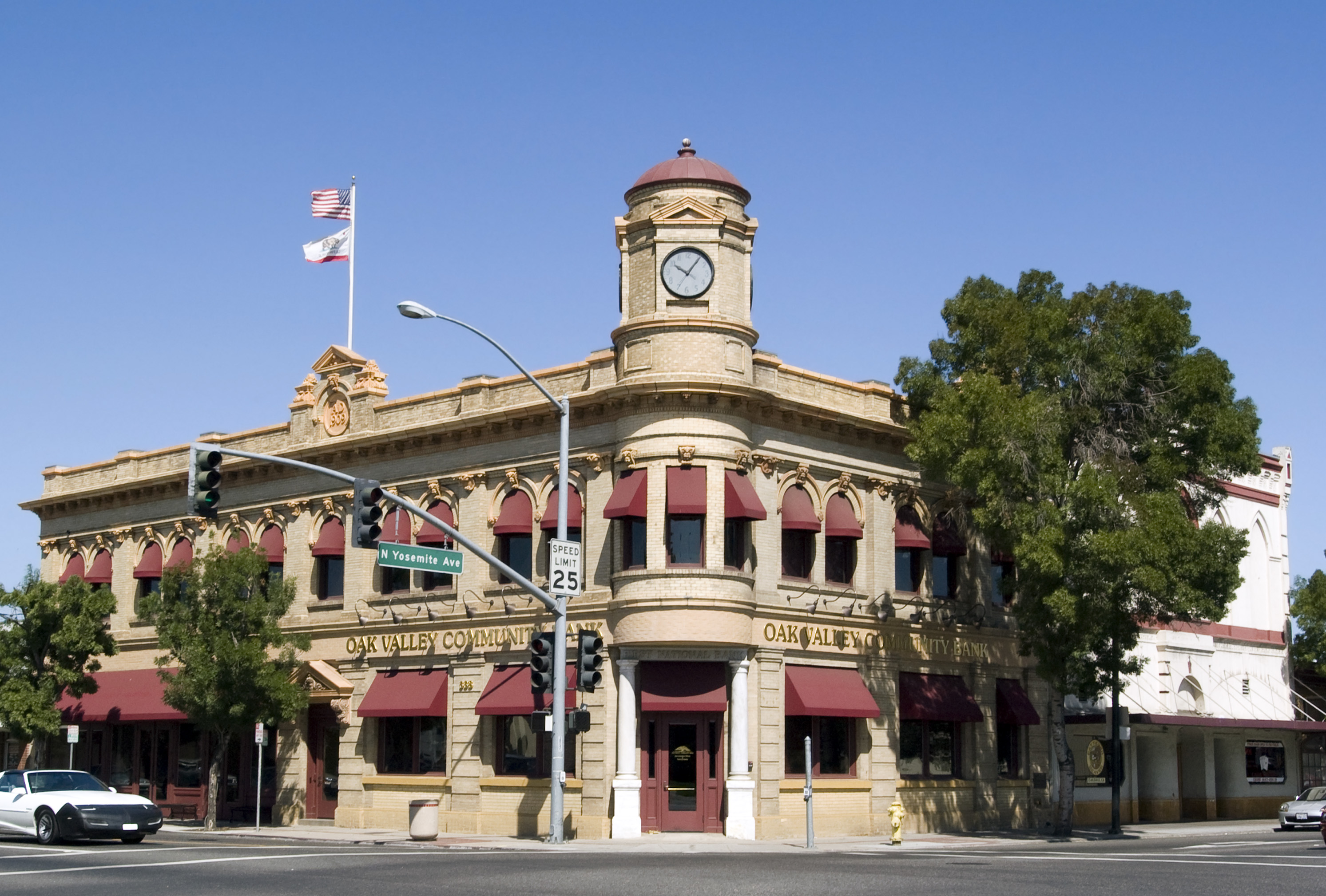 The First National Bank of Oakdale — in Oakdale, California. Added to the national Register of Historic Places in 2000.